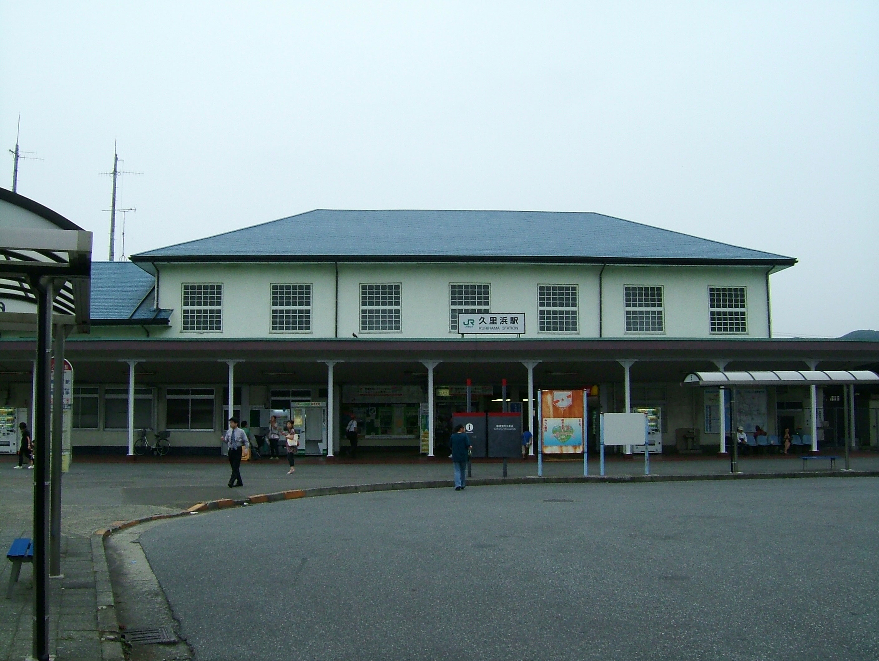 Kurihama Station building (East Japan Railway Yokosuka Line)